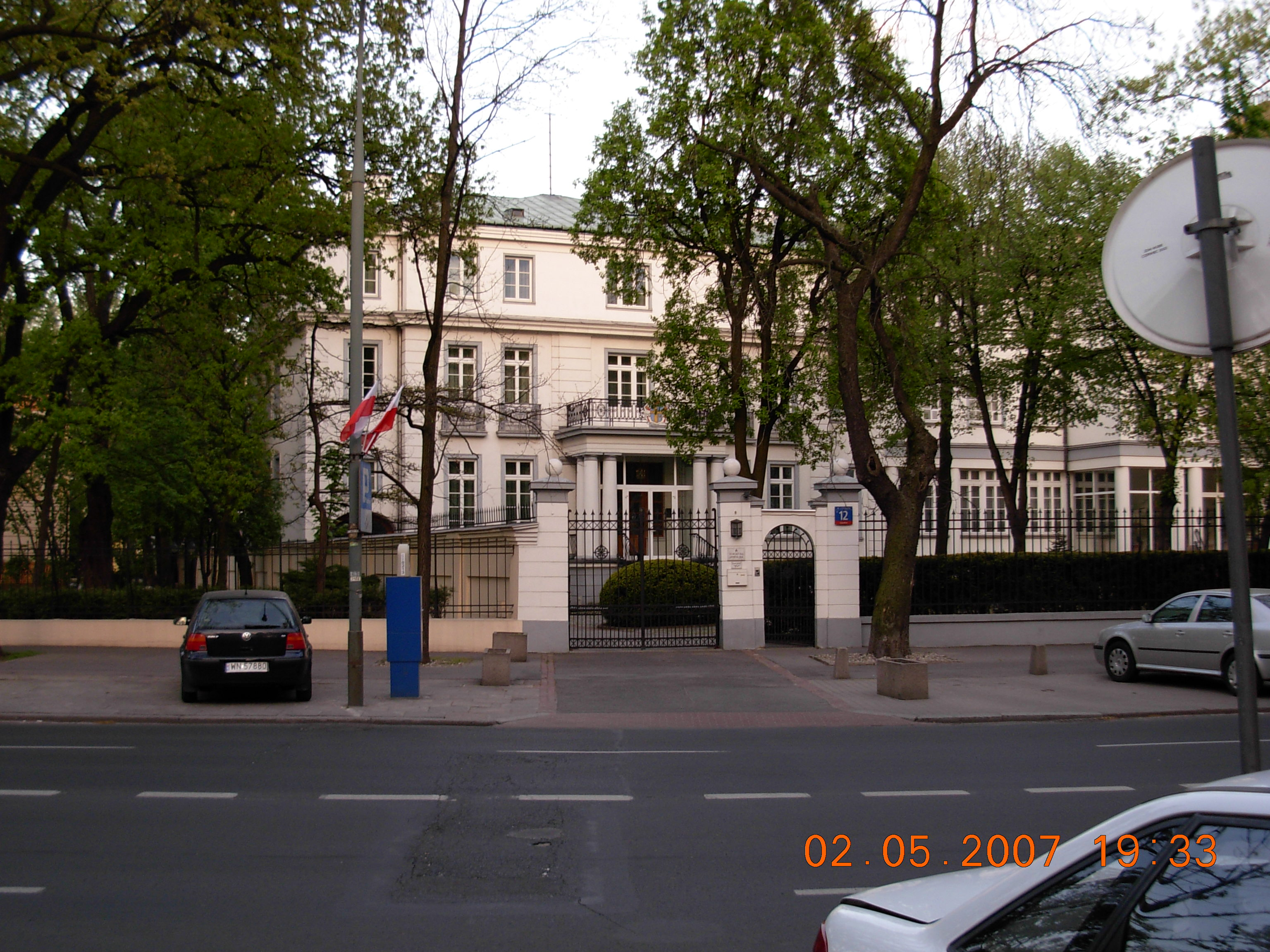 Apostolic Nunciature in Warsaw